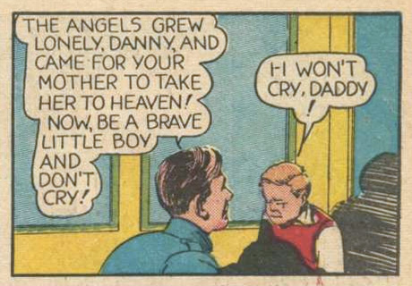 Comic book panel showing young boy (Dan Garret, aka Blue Beetle) being told not to cry after the death of his mother. From page 3 of Blue Beetle #1.